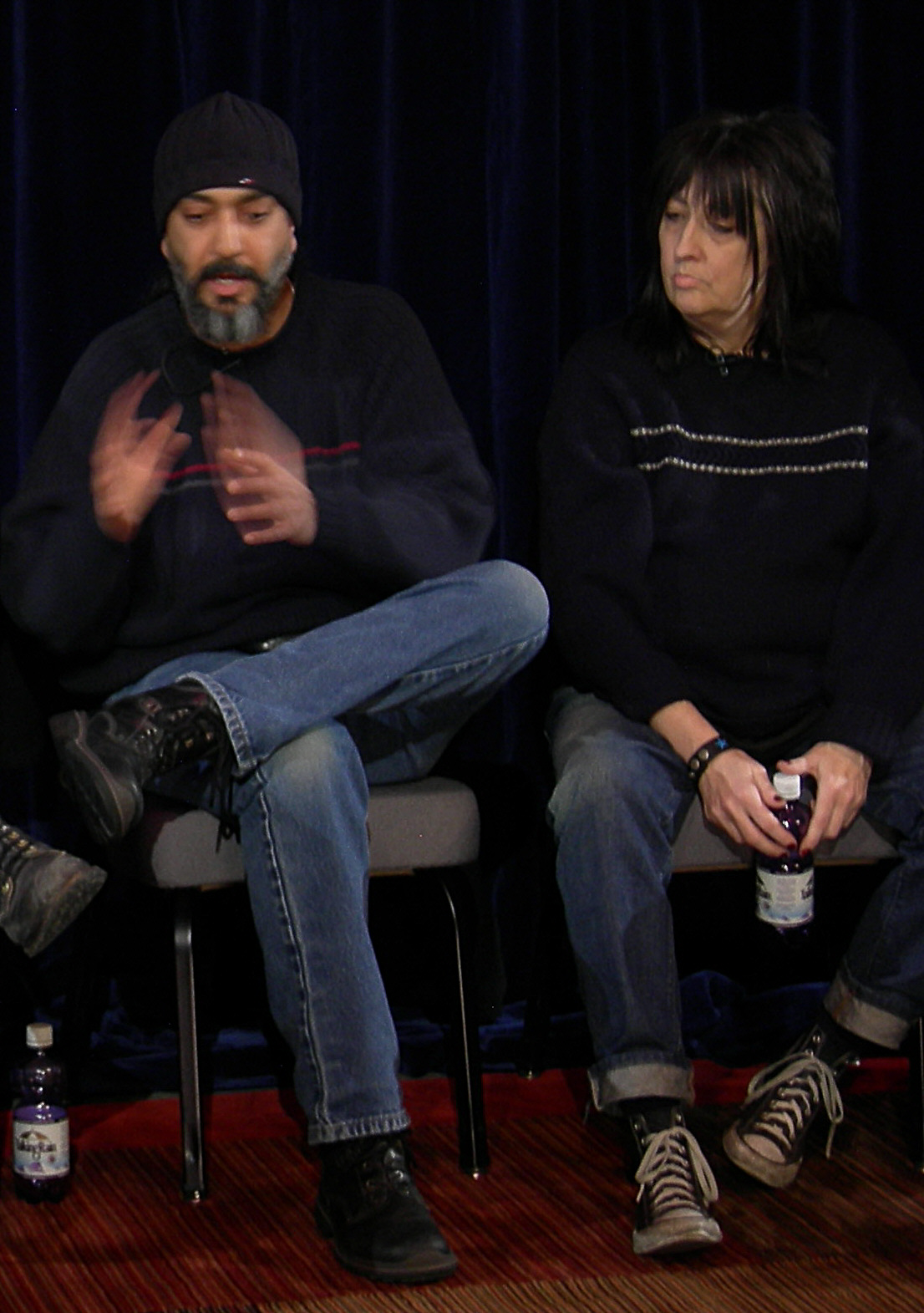 Kim Thayil of Soundgarden and Kim Warnick of The Fastbacks Snapped at a panel discussion as part of the exhibit "Sound & Vision: Artists Tell Their Stories" at Experience Music Project, Seattle, Washington. Cropped and sharpened.